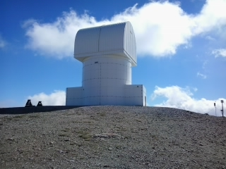 The 2.3 m Aristarchos telescope on top of mount Helmos, Greece.